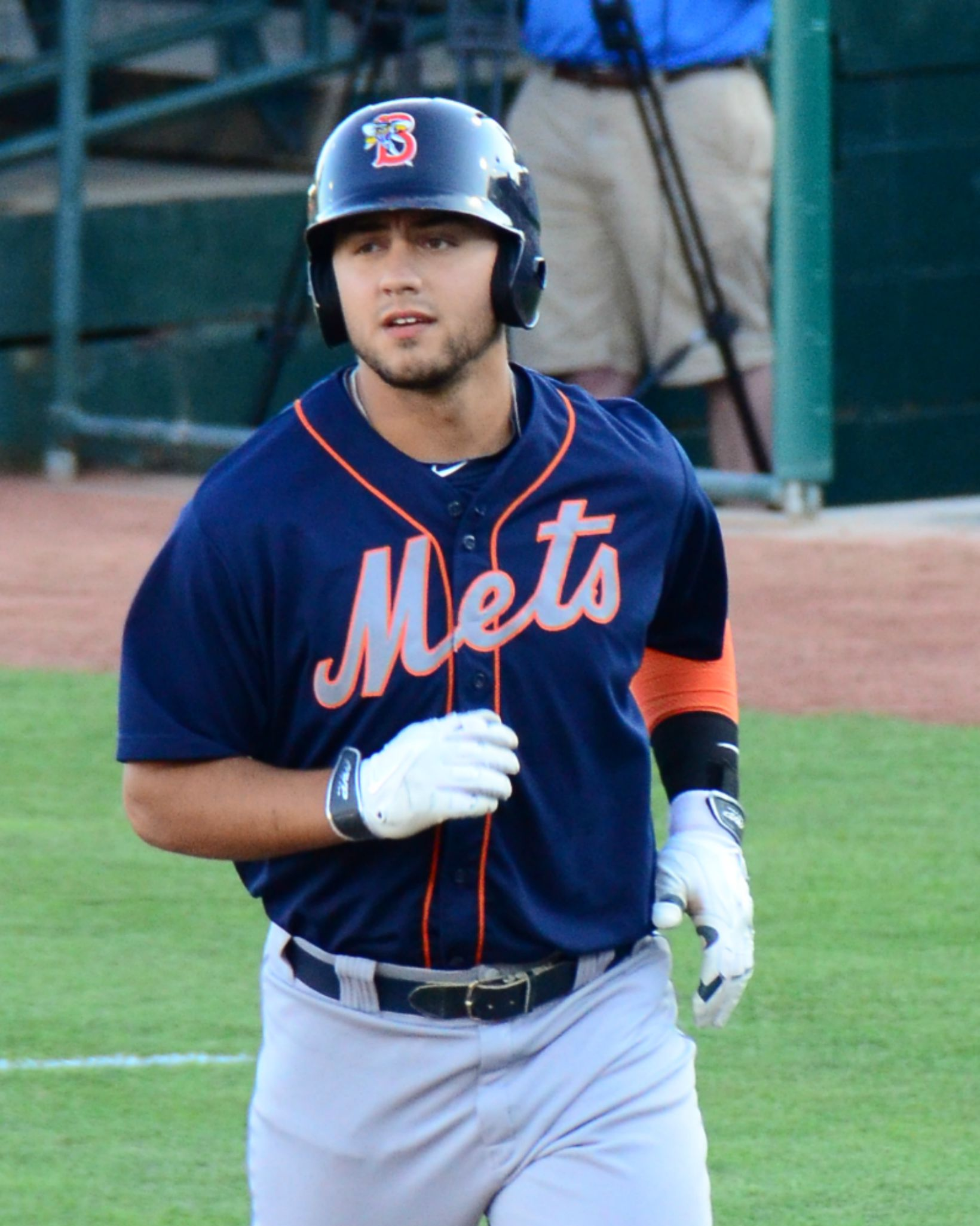 Michael Conforto